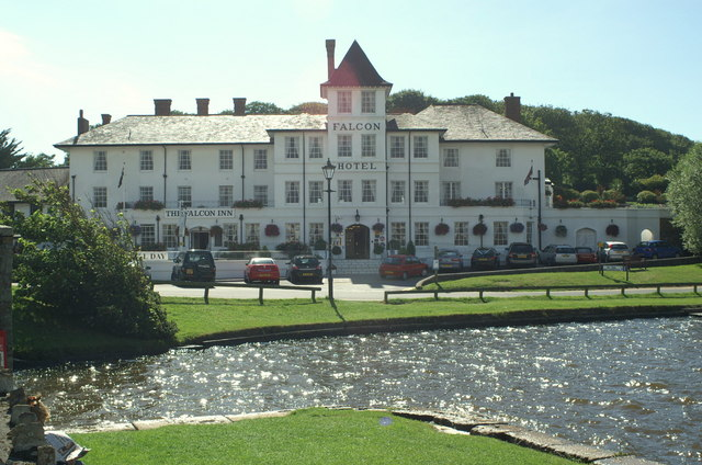 Falcon Hotel, Bude. Bude Canal in the foreground